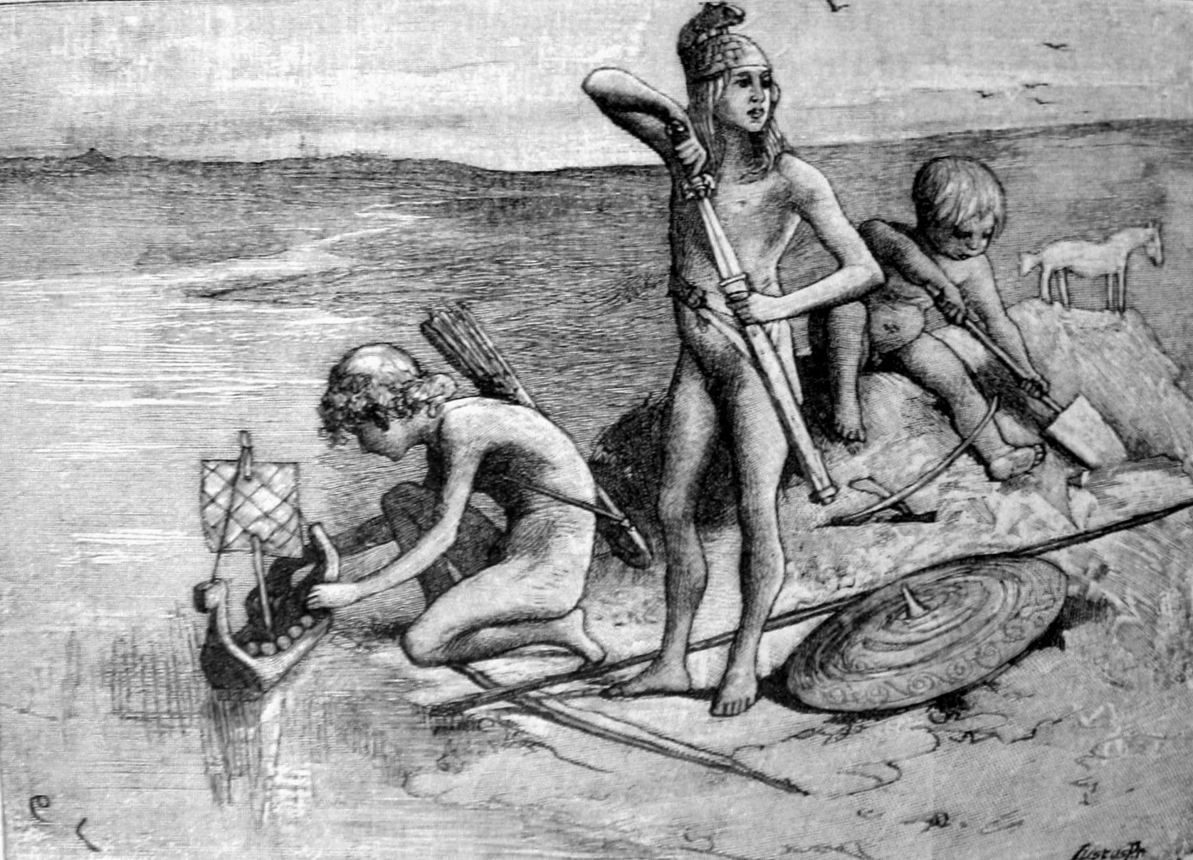 The engraving shows three boys playing by a river. The boy to the left is playing with a model ship. The boy in the middle holds a sword. The boy to the right, who seems to be the youngest, is digging with a spade and is next to a model horse. In the bottom left corner there is the signature of Carl Larsson (1853-1919), the artist. In the bottom right corner there is the signature of Justus Peterson (1860-1889), the xylographer. The image list on page 468 in the book describes this image as "Magnes (Mannus) tre söner", i.e. the three sons of Magne (Magni) or Mannus.